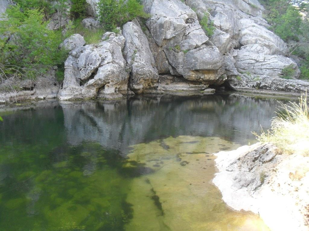 River source of Jadova in Gornja Ploča, Croatia.